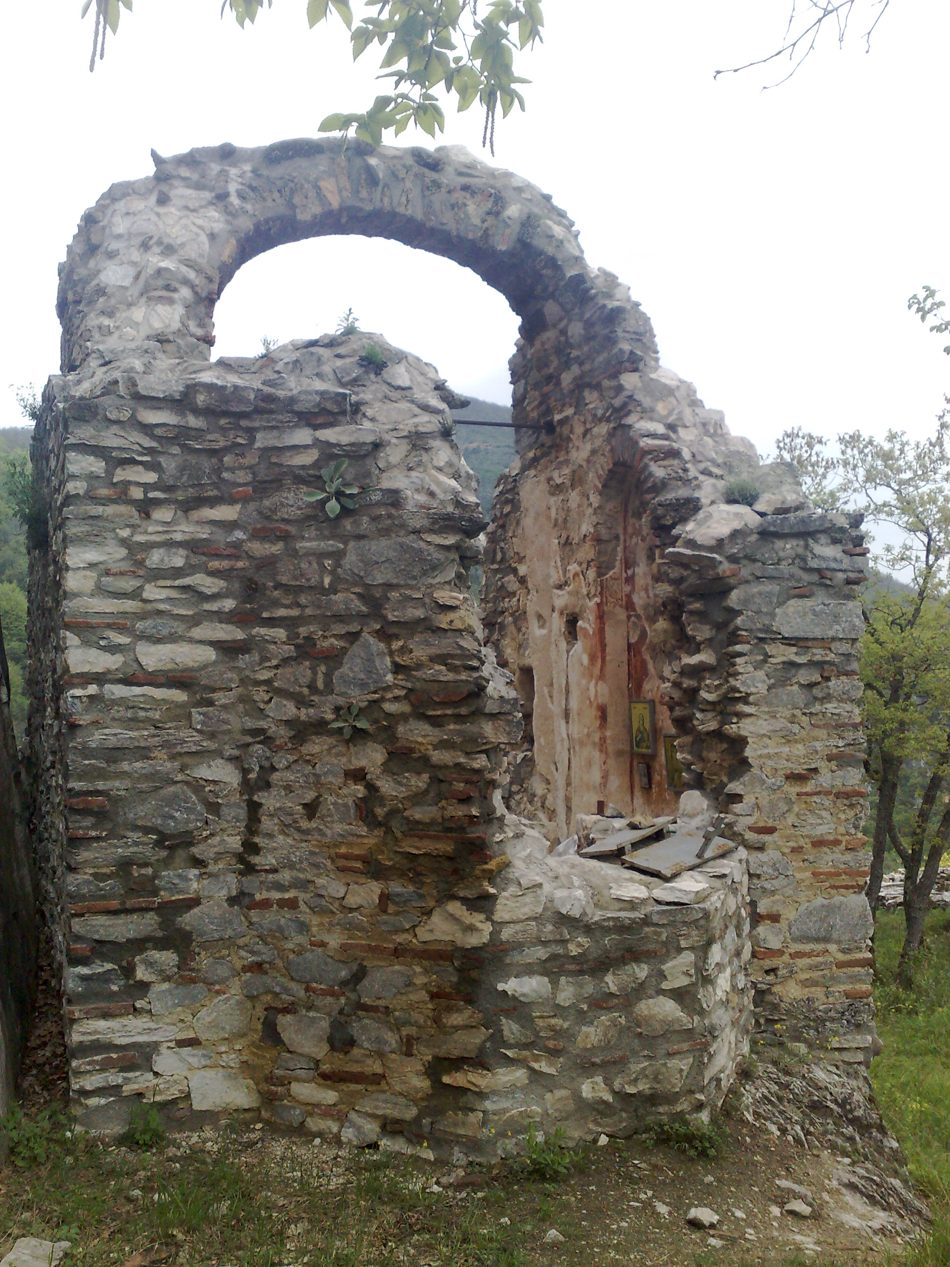 The remains of the medieval church of Sveta Nedela in Matka Canyon, Macedonia